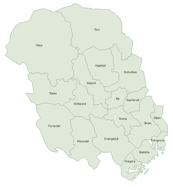 Municipalities of county Telemark, Norway